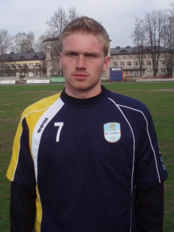 Boriss Bogdaškins, Latvian football player.